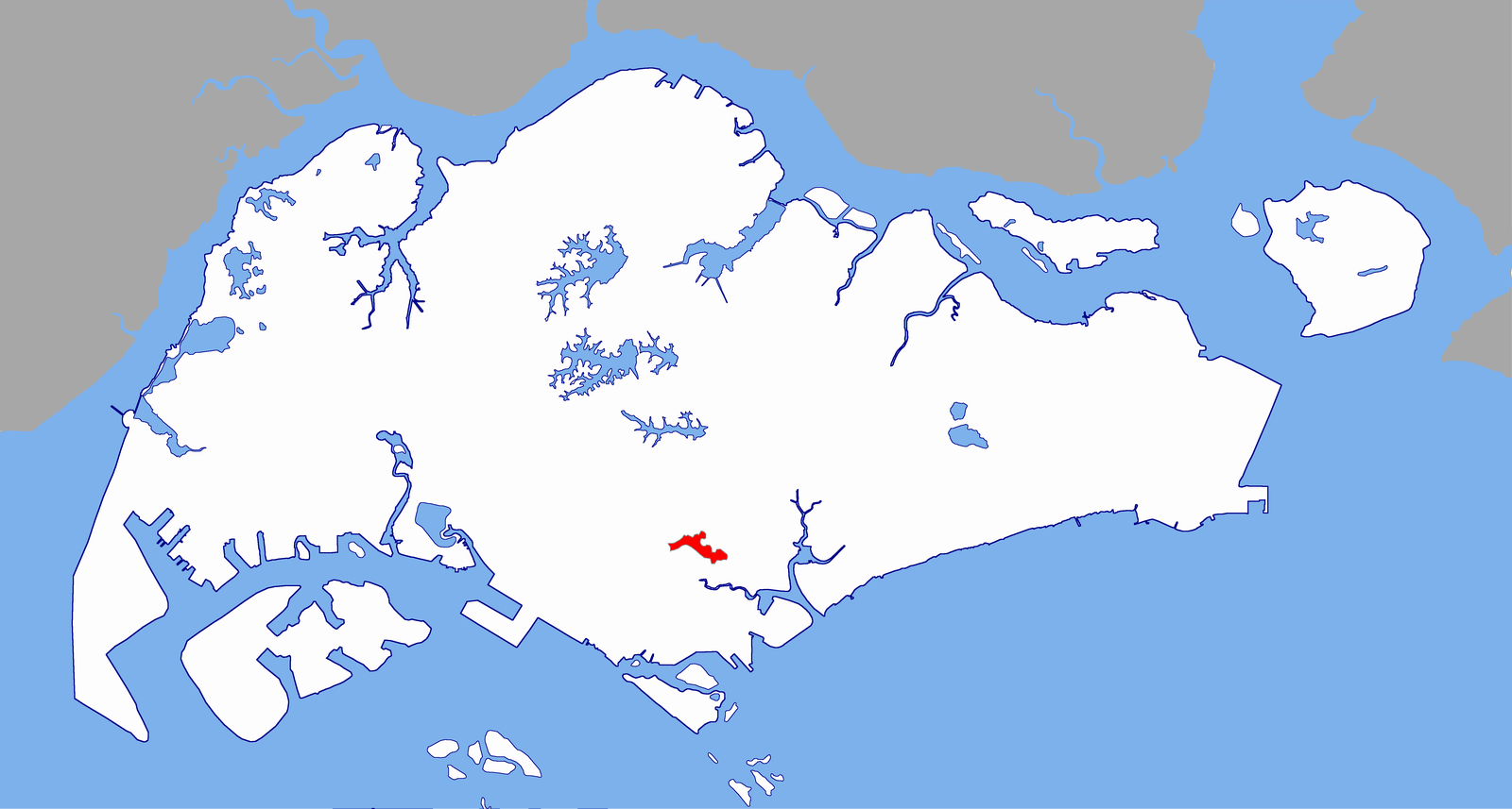 Created by Vsion